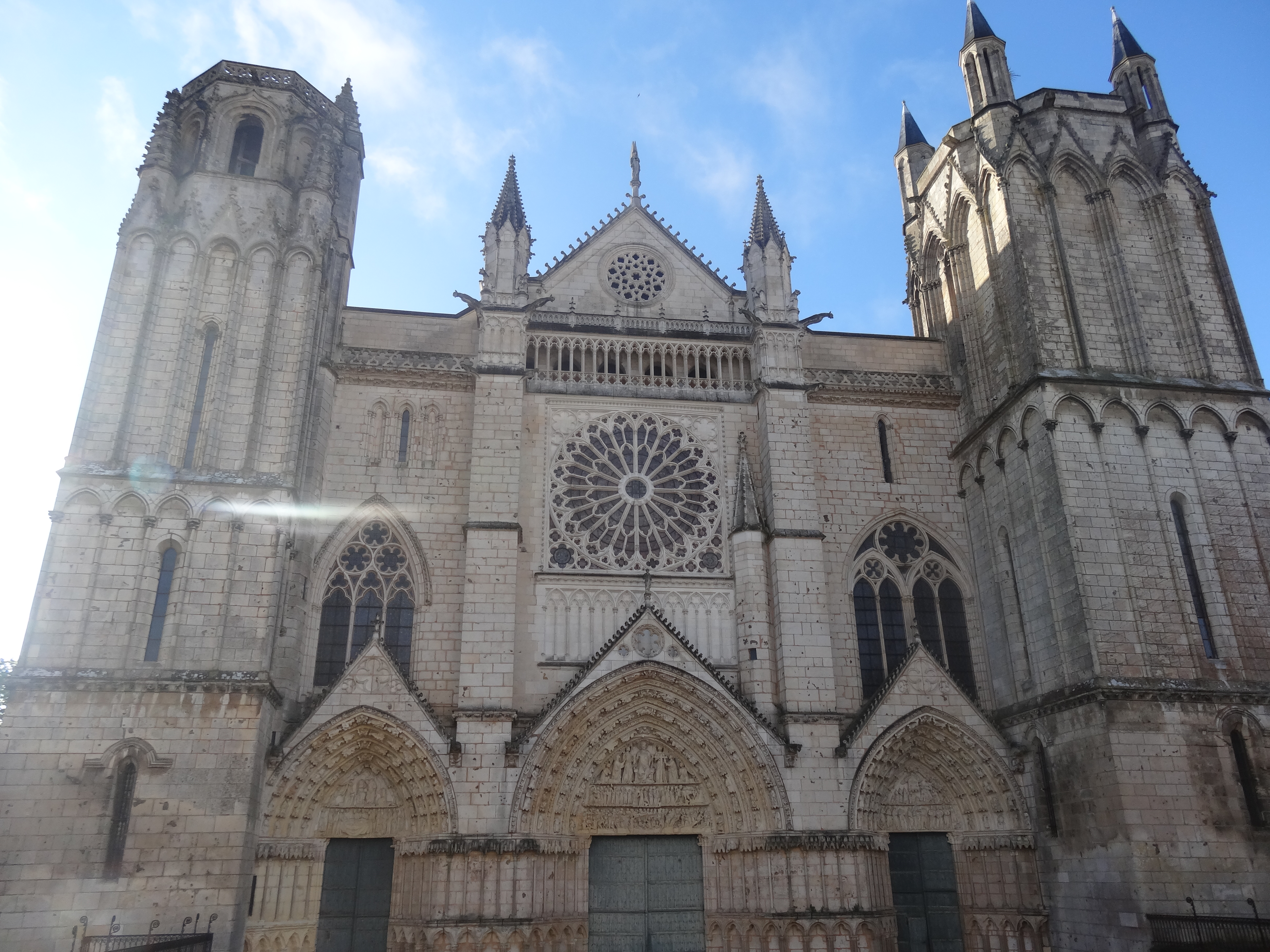 Facade of Cathédrale Saint-Pierre de Poitiers